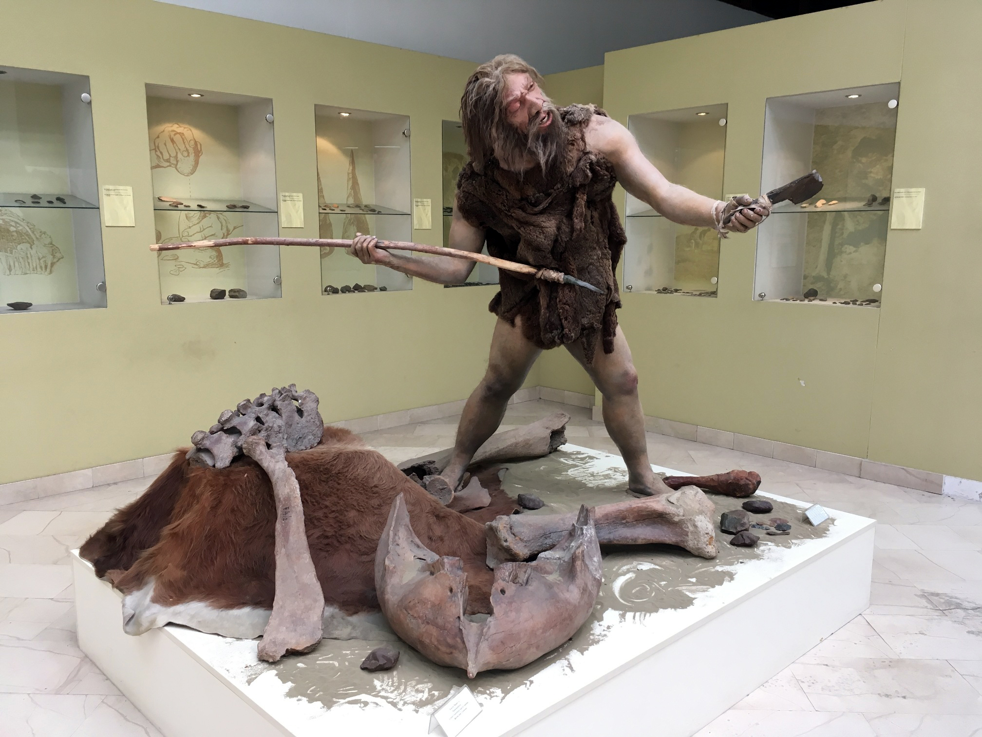 Figure of Neanderthal, by Borivoje Žuža, Museum of Republika Srpska, Banja Luka